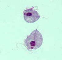 Two trophozoites of Trichomonas vaginalis obtained from in vitro culture. Smear was stained with Giemsa.